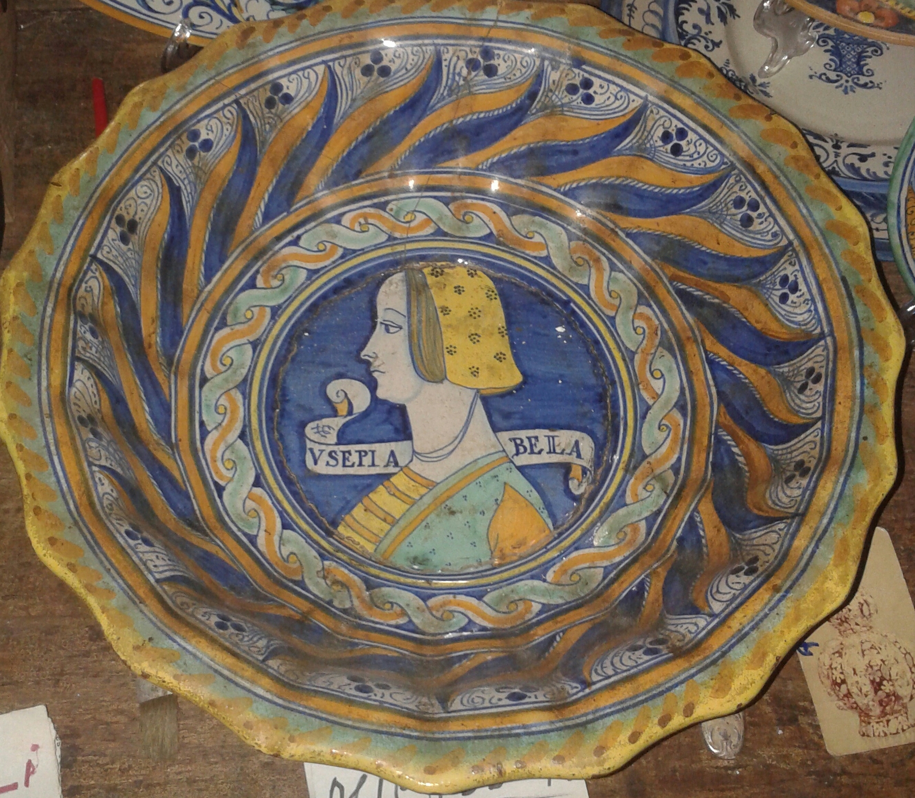 Angelo Micheletti, bacile con profilo di donna, seconda metà dell'800, Deruta, collezione e fornace di Francesco Baiano